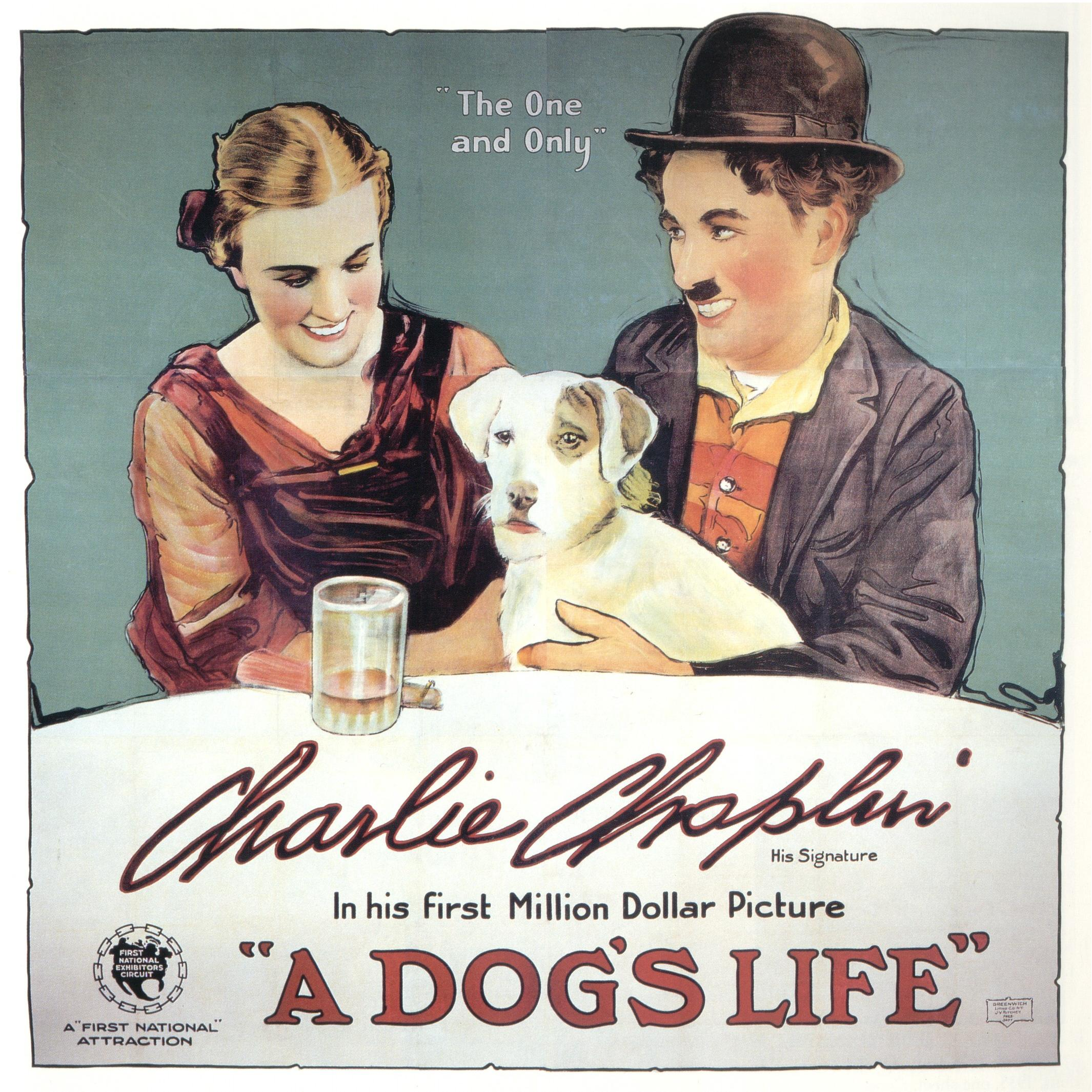 Film poster for the 1918 Charlie Chaplin vessel A Dog's Life